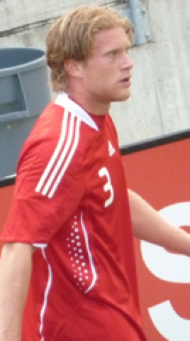 Marcel De Jong playing for team Canada